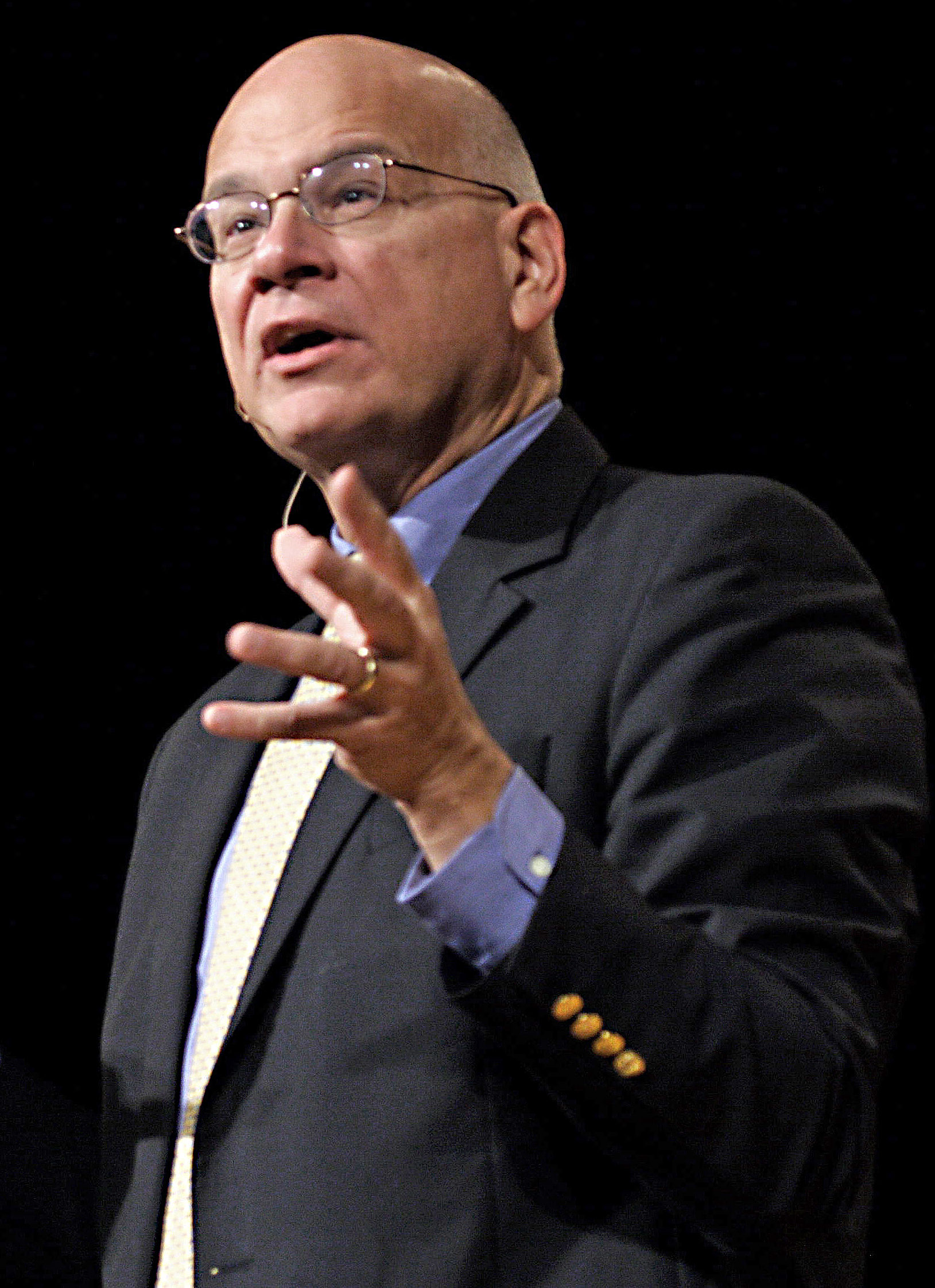 A photograph of Timothy Keller.